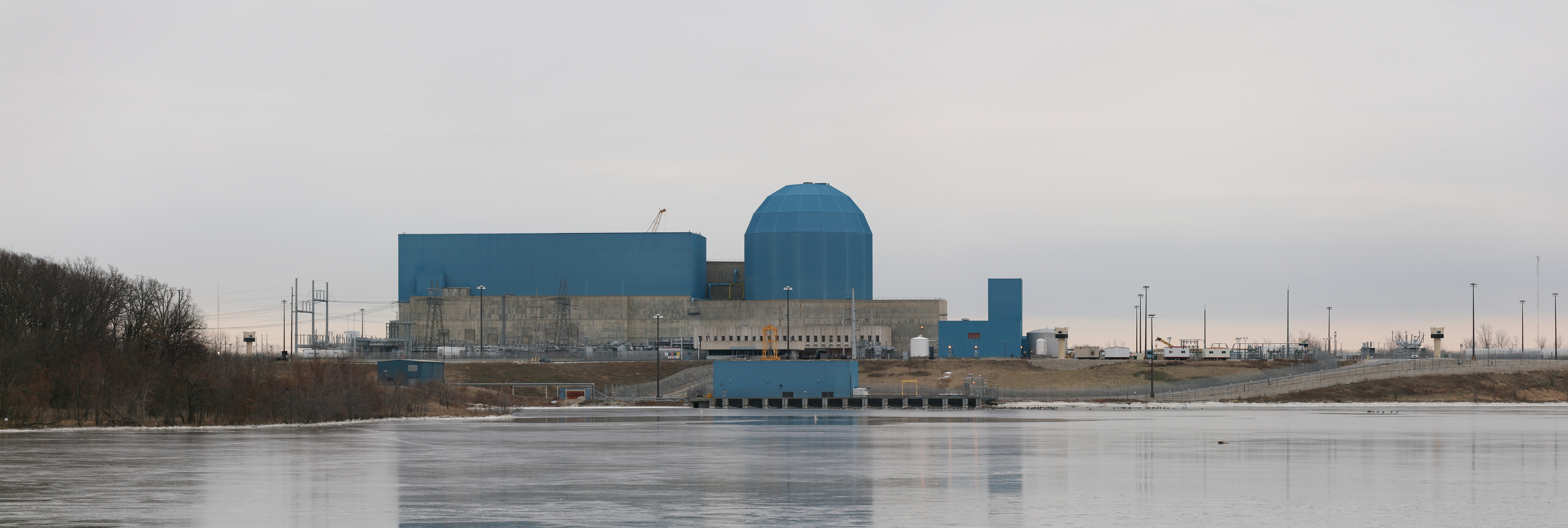 Clinton nuclear generating station, Illinois